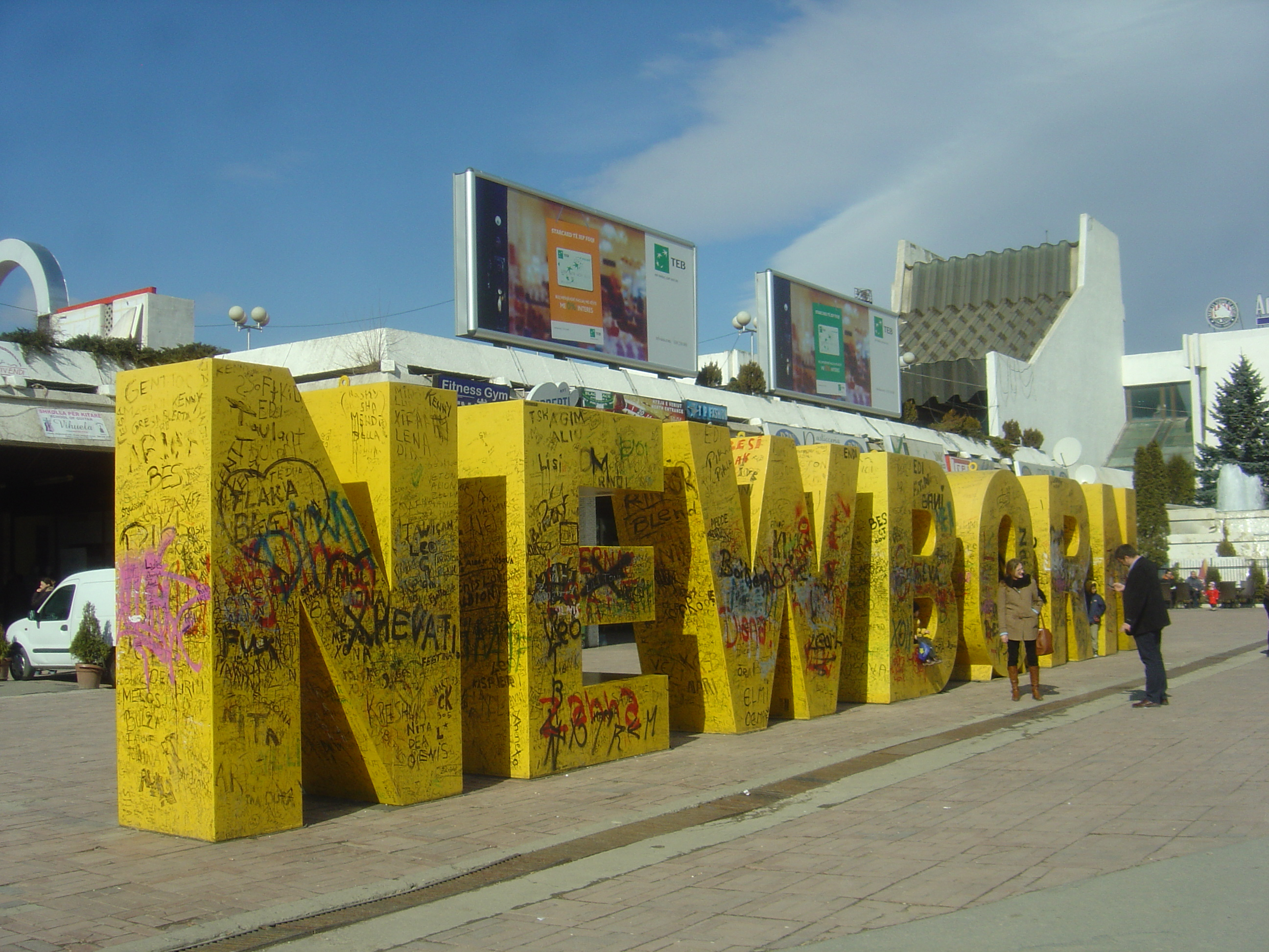 Newborn monument in Pristina, Kosovo